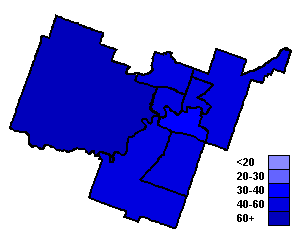 Map made by uploader (User:Earl Andrew); see [1] (question about source) and [2] (response).